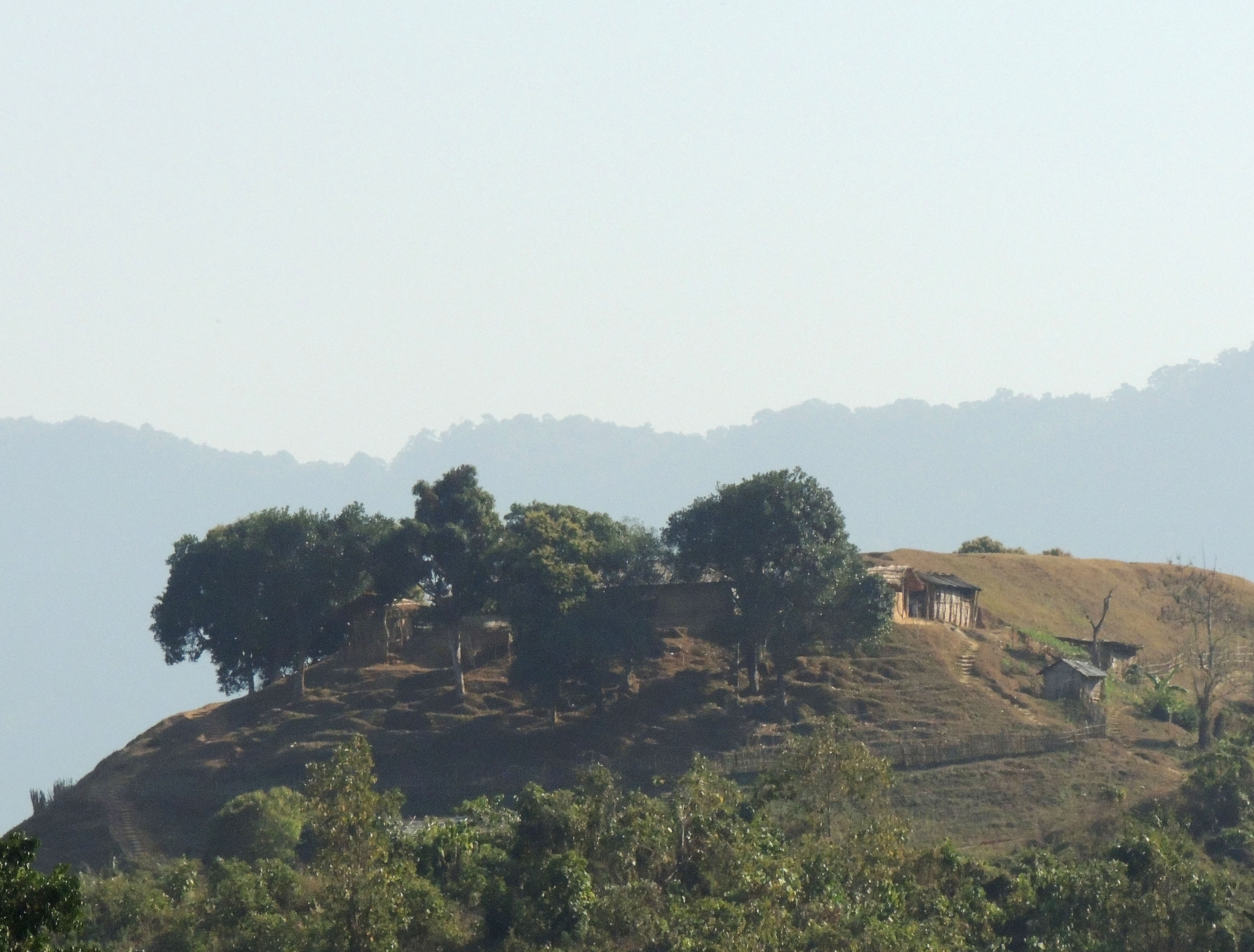 Tindu BGB Camp (Bandarban) up on the hill